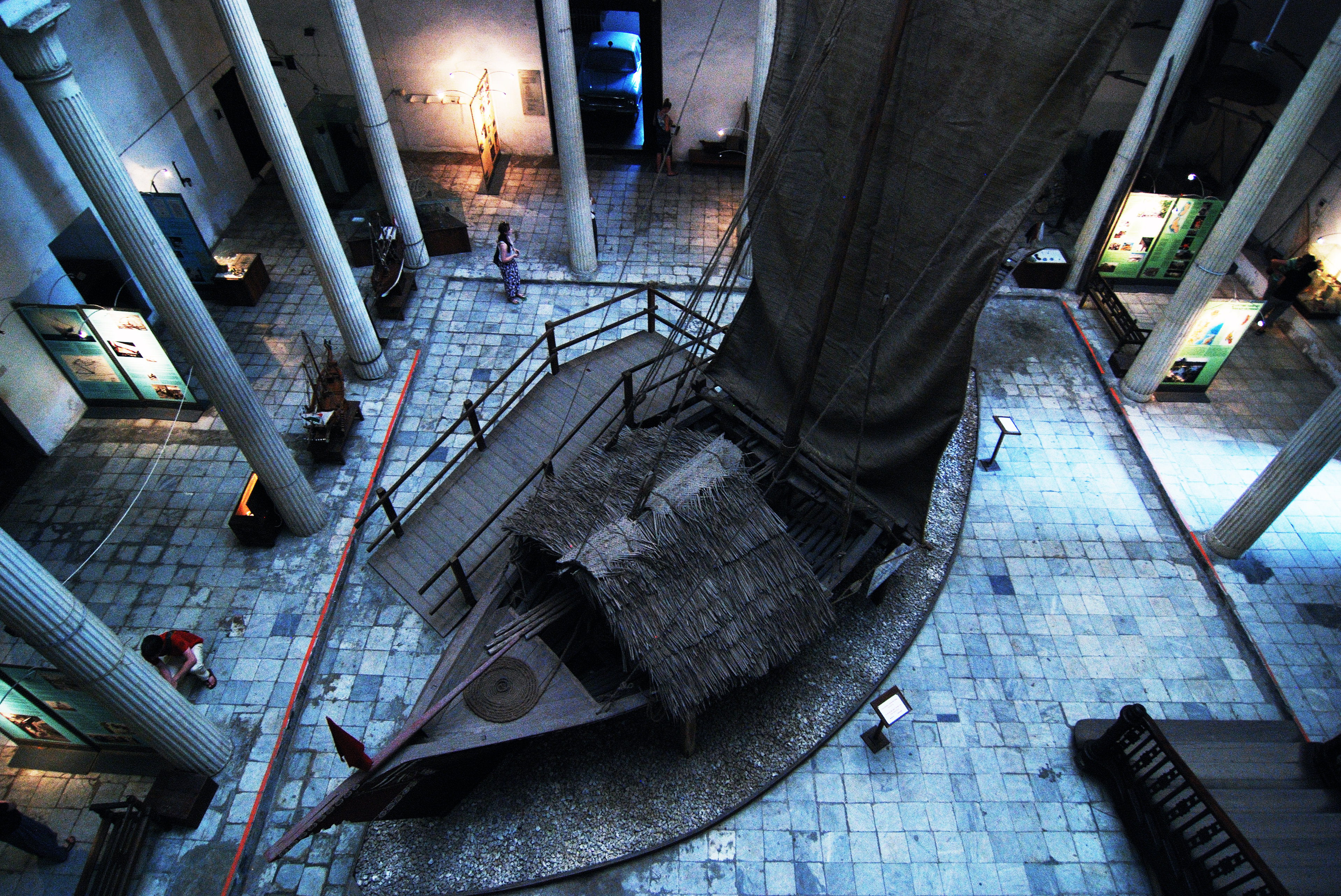 Inside the House of Wonders in Stone Town, Zanzibar (view from an inner balcony). The main courtyard hosts a mtepe, a traditional swahili boat. In the upper left part of the picture you can see a car that was a property of Zanzibar's first president.